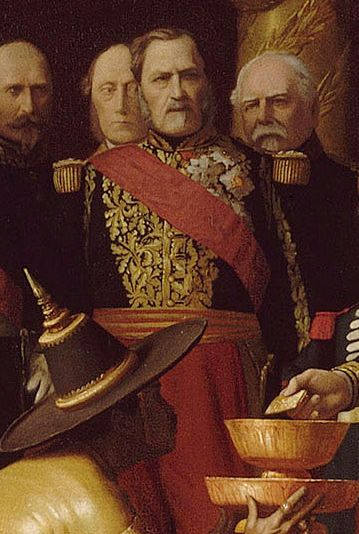 Bernard Pierre Magnan at the greeting of the Siamese delegation by Napoleon III, painting by Jean-Leon Gerome